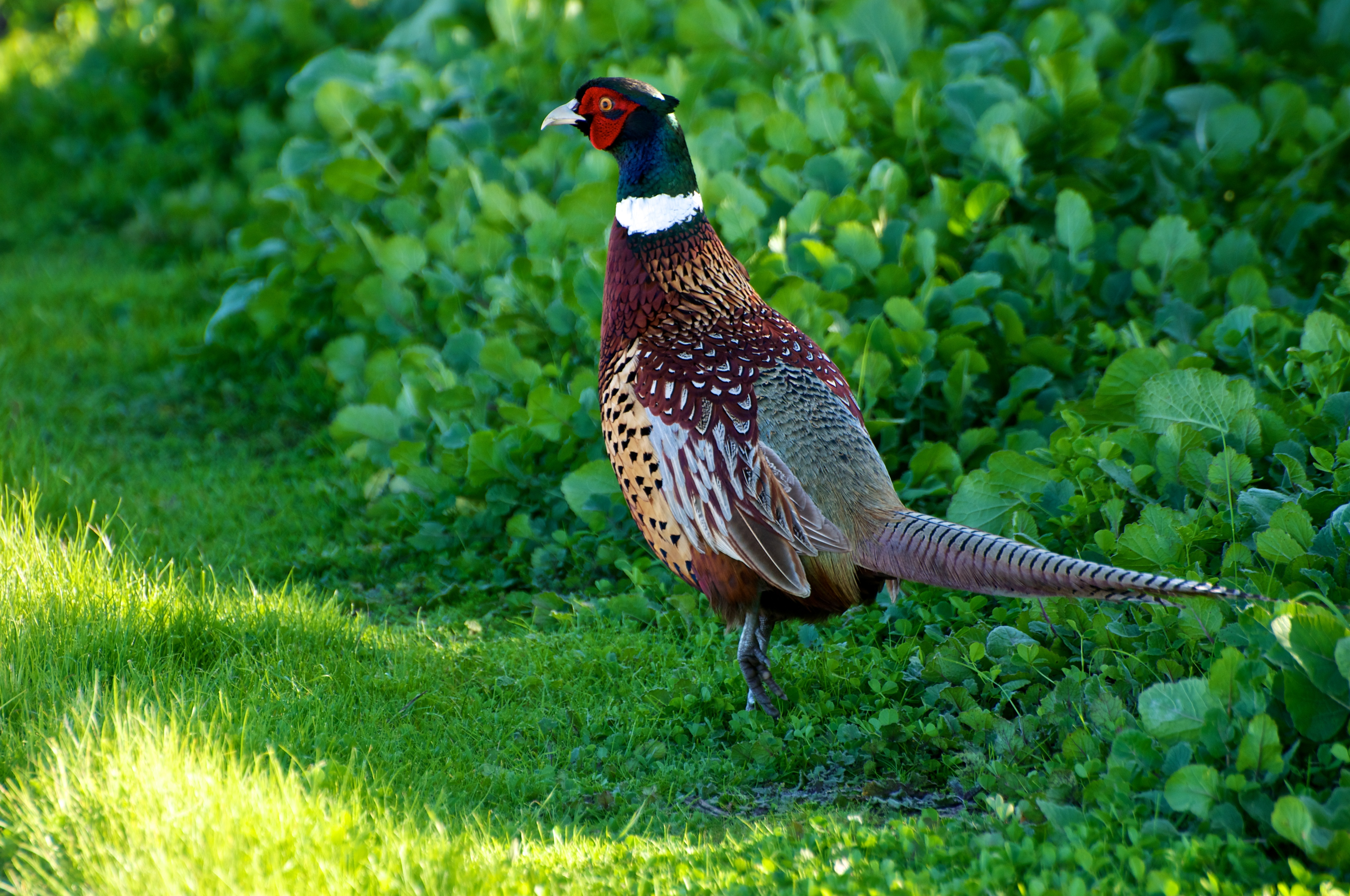 A Common Pheasant at Palo Alto Baylands in California, USA.